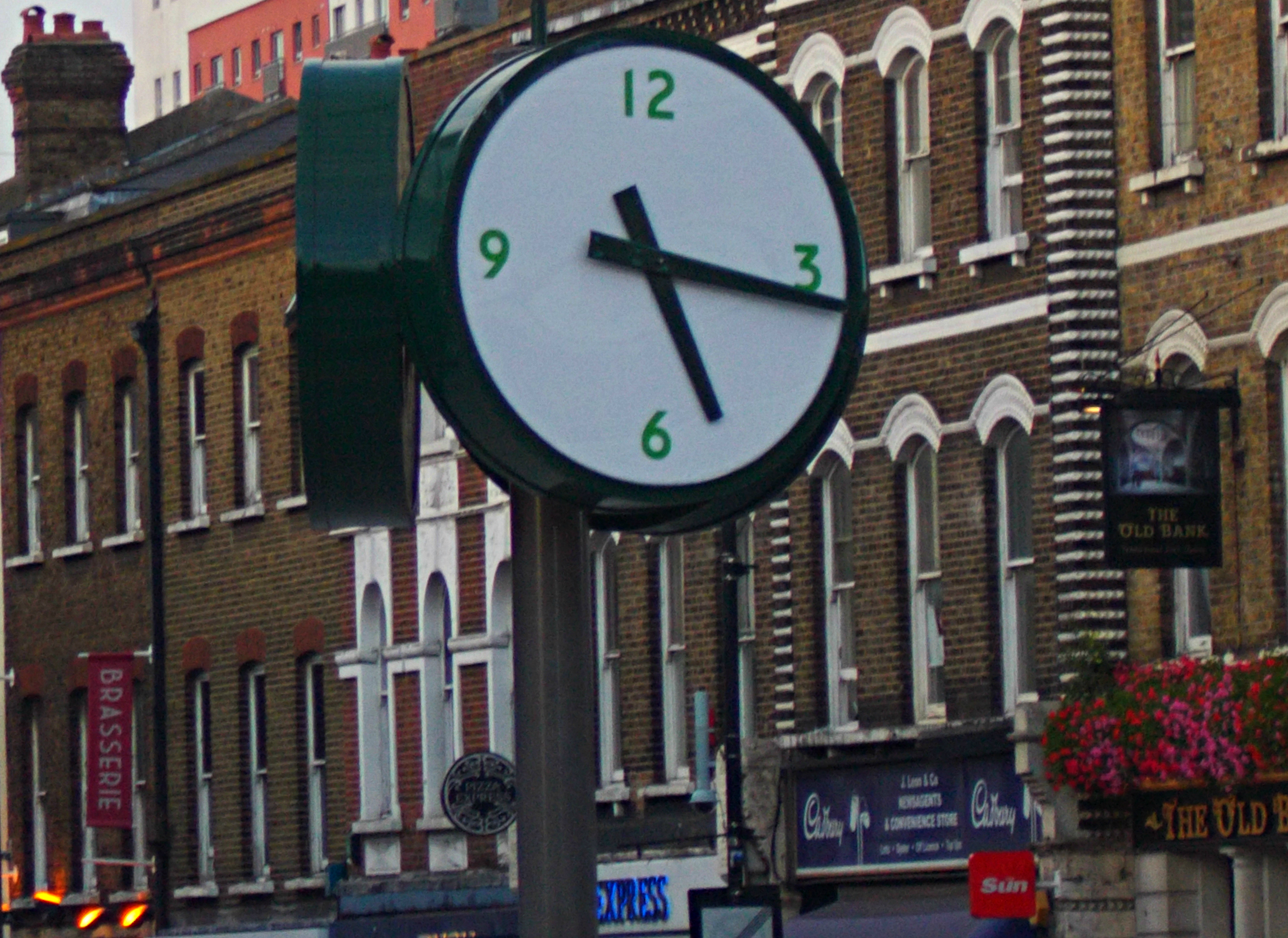 Clock by Sutton station, SUTTON, Surrey, Greater London. Installed in 2015. Sutton High Street is in the background.